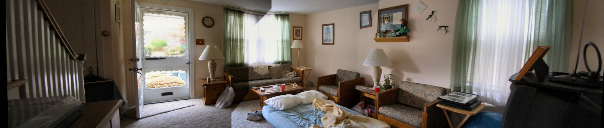 A living room in Philadelphia, USALiving Room @ Shisler St., Phila., PA